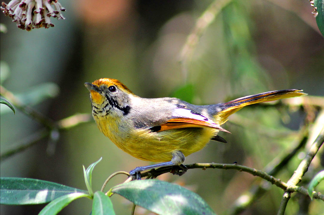 Chestnut-tailed Minla